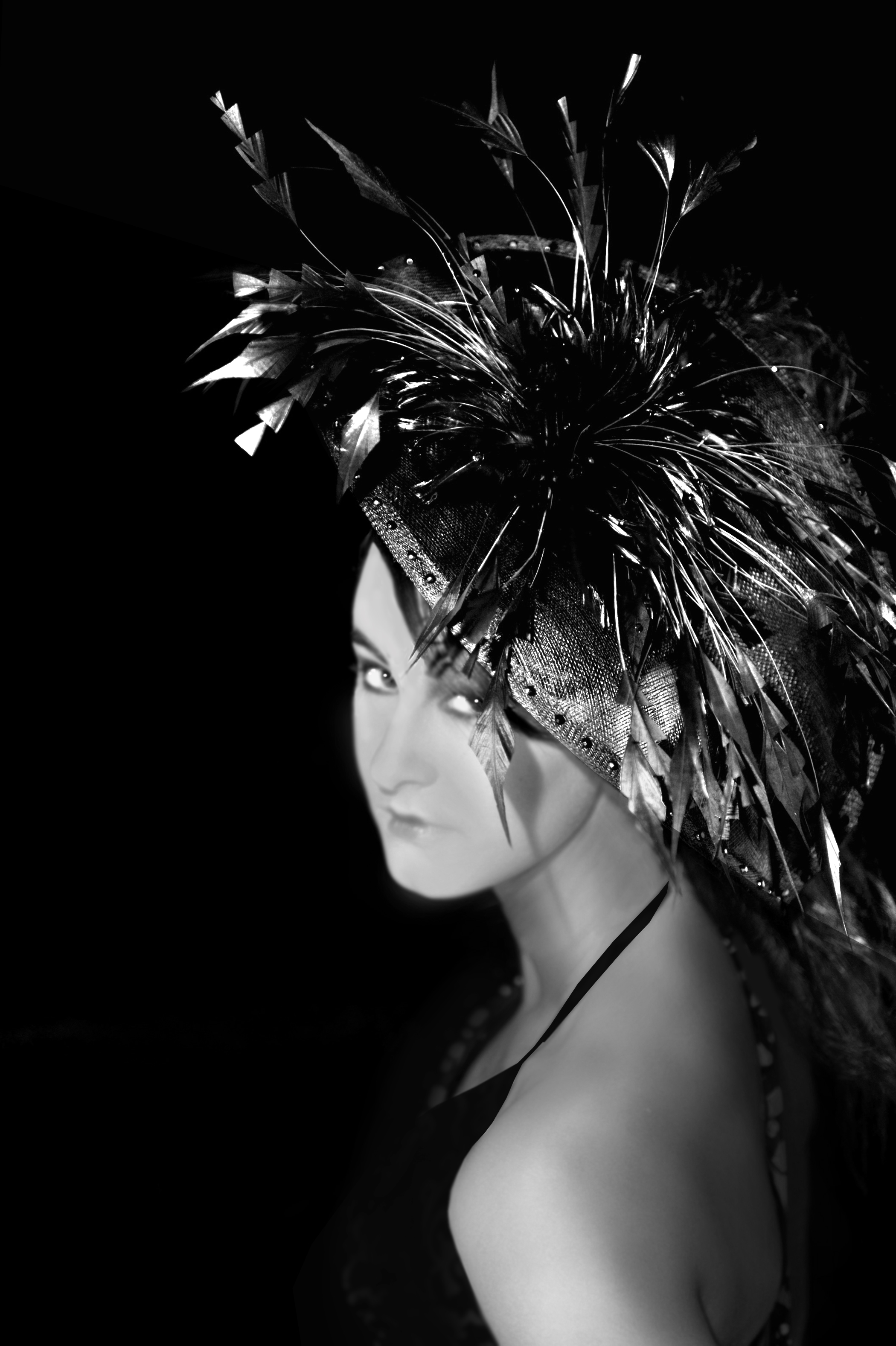 Amy for Mr. Song Millinery wearing Luke Song's Venus 2 Fascinator in Black